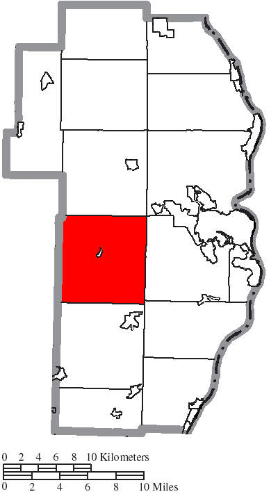 Map of the municipal and township boundaries of Jefferson County, Ohio, United States, as of the 2000 census, with the location of Wayne Township highlighted. Township borders are shown only in unincorporated areas in order to differentiate incorporated and unincorporated areas more clearly.